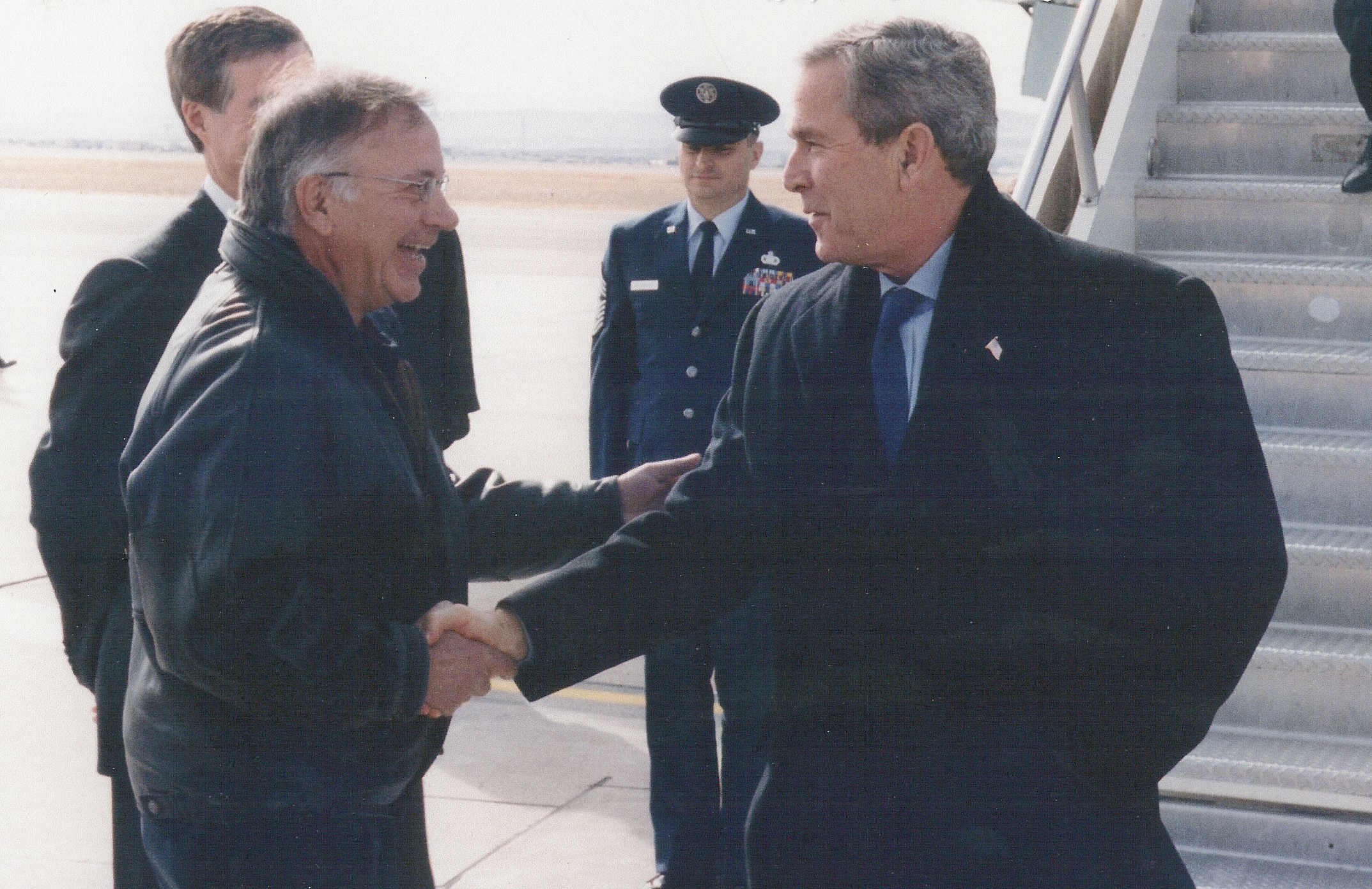 Rep. Tancredo with President George W. Bush. Rep. Tancredo welcomes the President to Colorado as he visits the troops at Fort Carson, Colorado.